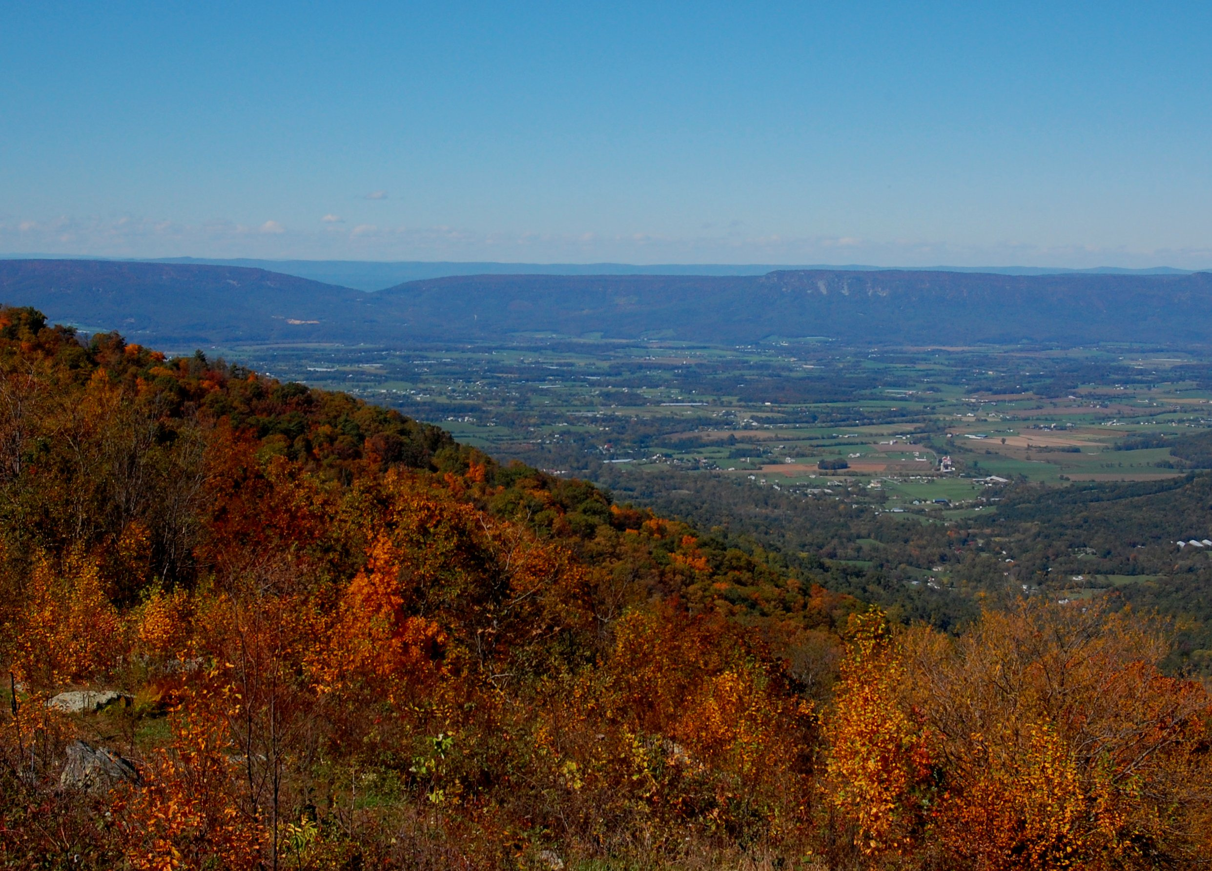 Looking West from Fisher's Gap Overlook on Skyline Drive toward Stanley, VA